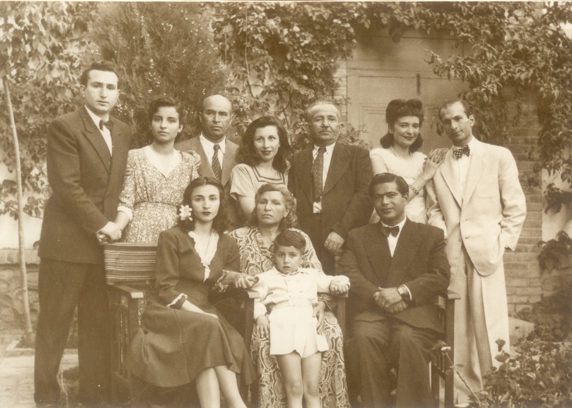 this is considered in public domain now because its copyright condition has been already expired in Iran. according to the "National law in support of authors, composers and artists" ratified in 01/01/1970 and published in 01/02/1970, the license for photographs and films after their issuing date is valid for 30 years.